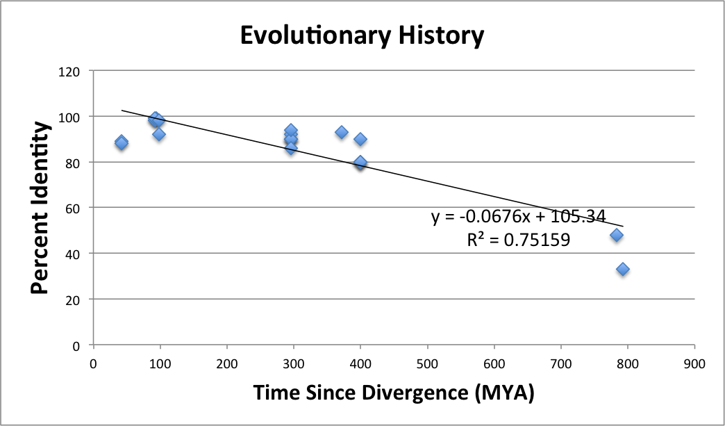 Expected percent protein identity versus time since divergence graph of the evolutionary history of the protein FAM78B.